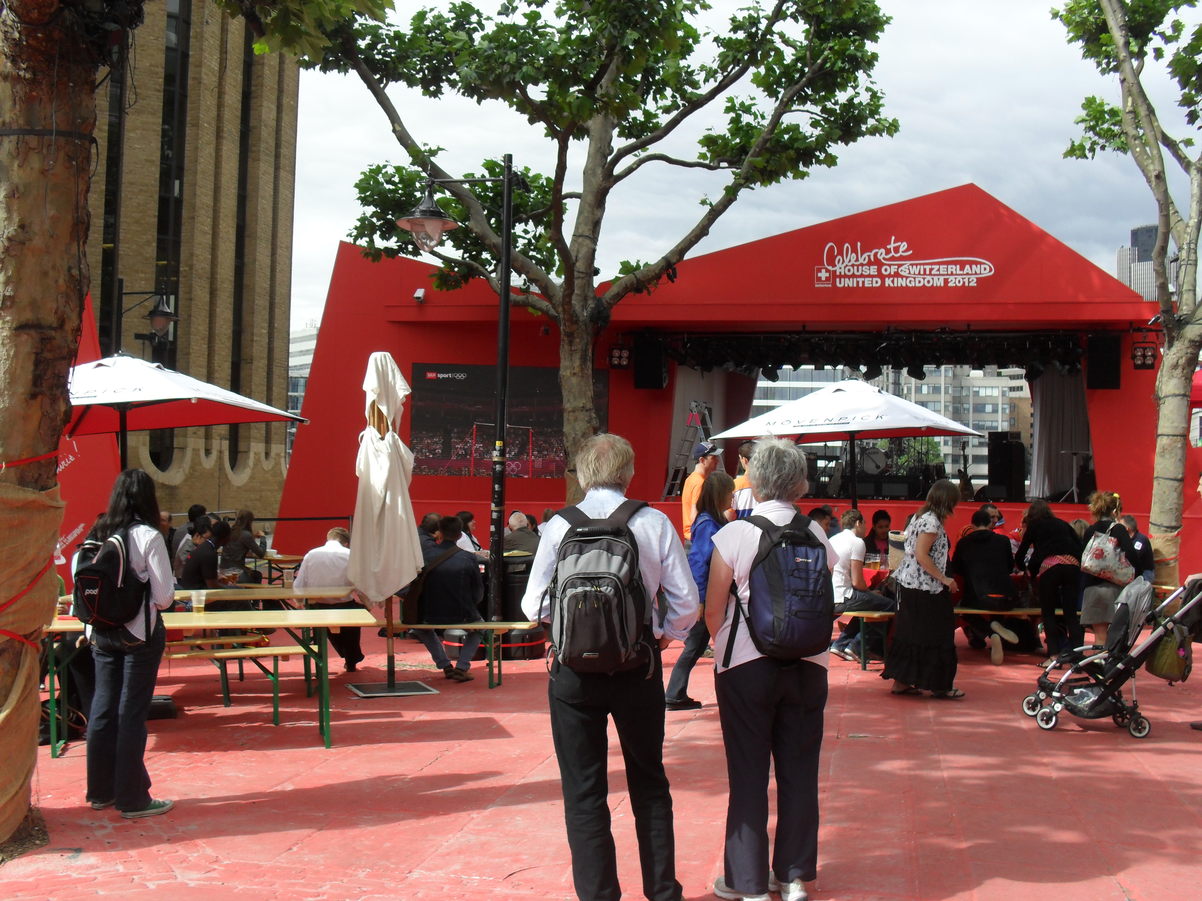 The Red Zone of the House of Switzerland during the 2012 Summer Olympics, located near the London Bridge.